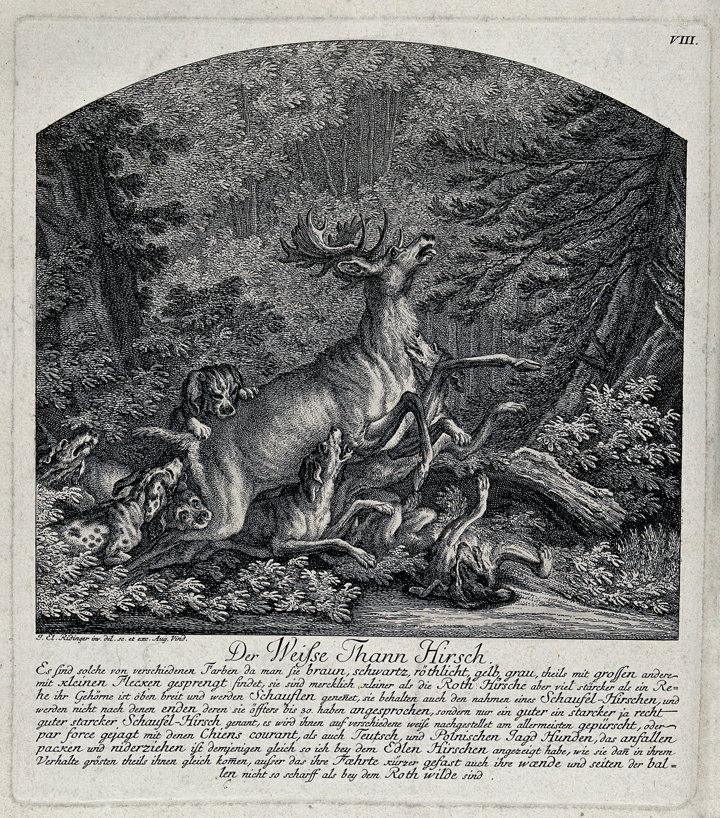 A white stag brought down by a pack of dogs. Etching by J.E. Ridinger. Iconographic Collections Keywords: Johann Elias Ridinger